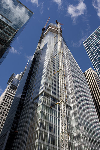 The Bank of America Tower under construction on 12 October 2007. Photo by Eric R. Bechtold